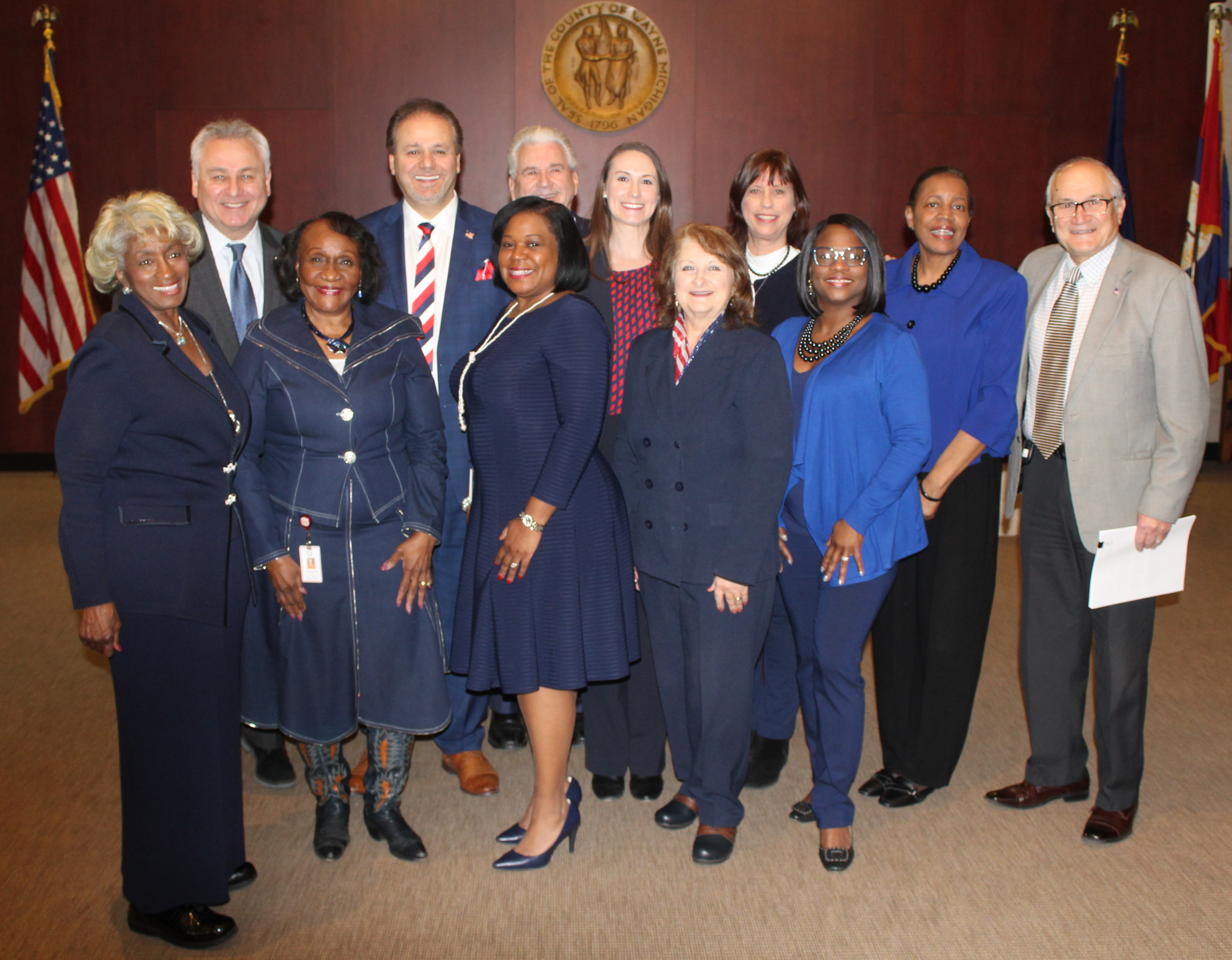 Wayne County Commission members 2020